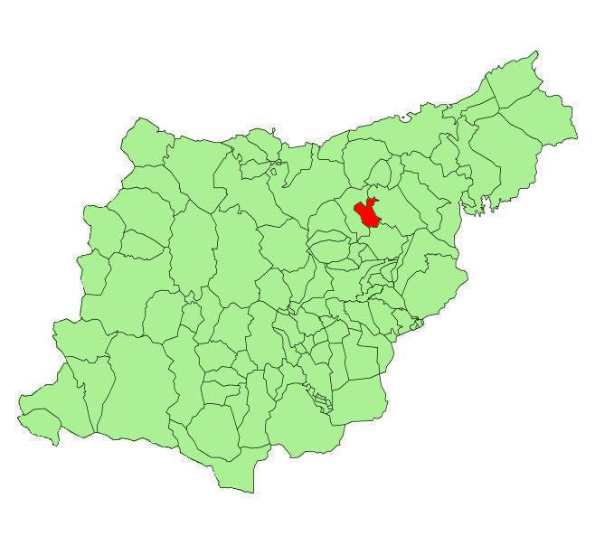 Aduna municipality in the province of Guipuzcoa